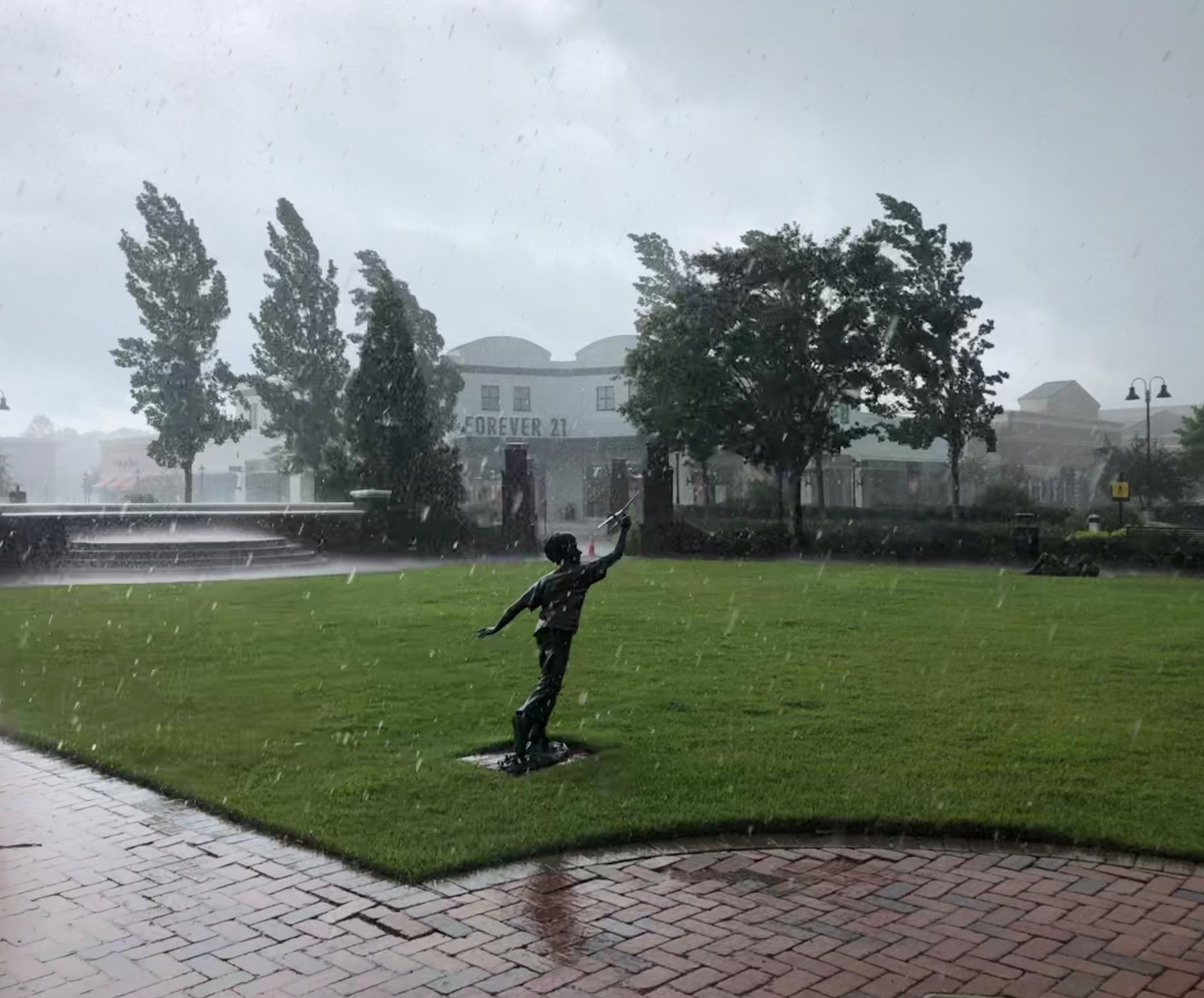 The Carriage Crossing open-air mall in a rainstorm of July 2019.